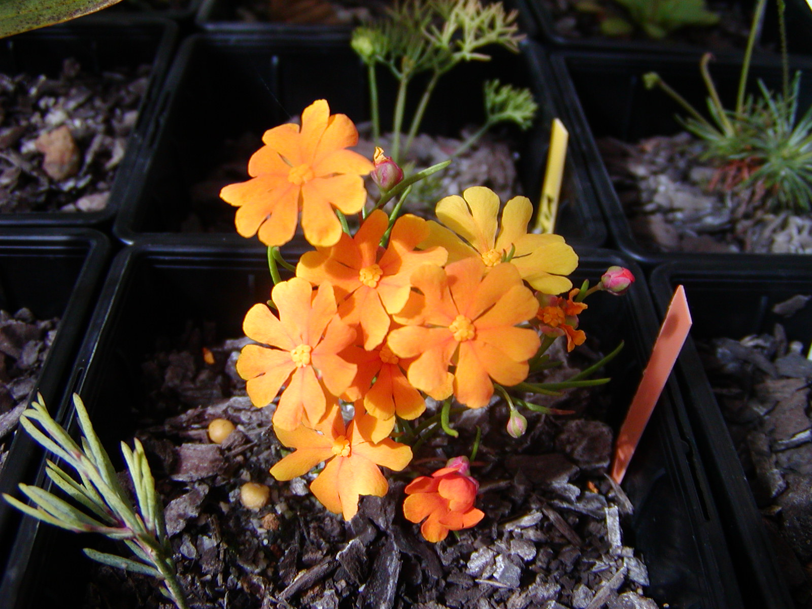 Star guinea flower growing in a pot.